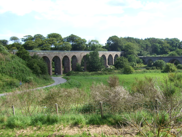 Bridges over the North Esk near Kinnaber Old rail viaduct left, A92 road bridge right.